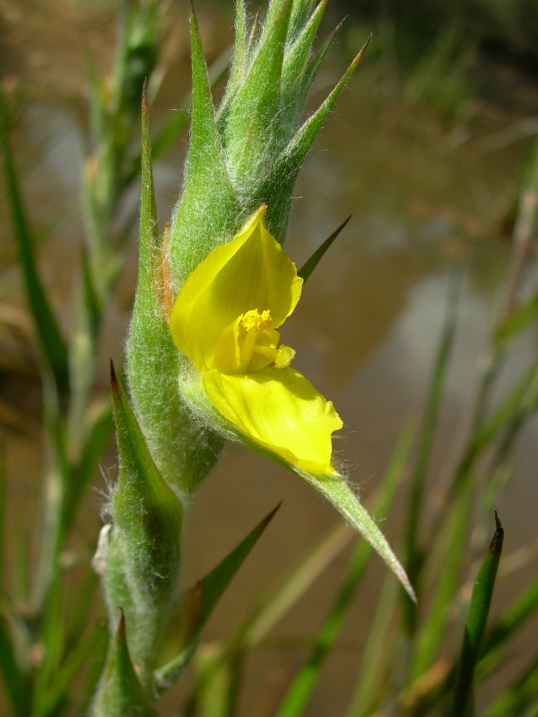 Woolly Frogmouth (Philydrum lanuginosum) in small dam. Flower on a spike. Standard common names: Frogsmouth or Woolly Waterlily Australia photographed by Shelle (Flickr) on 2 January 2009 (7 Jan Flickr upload)